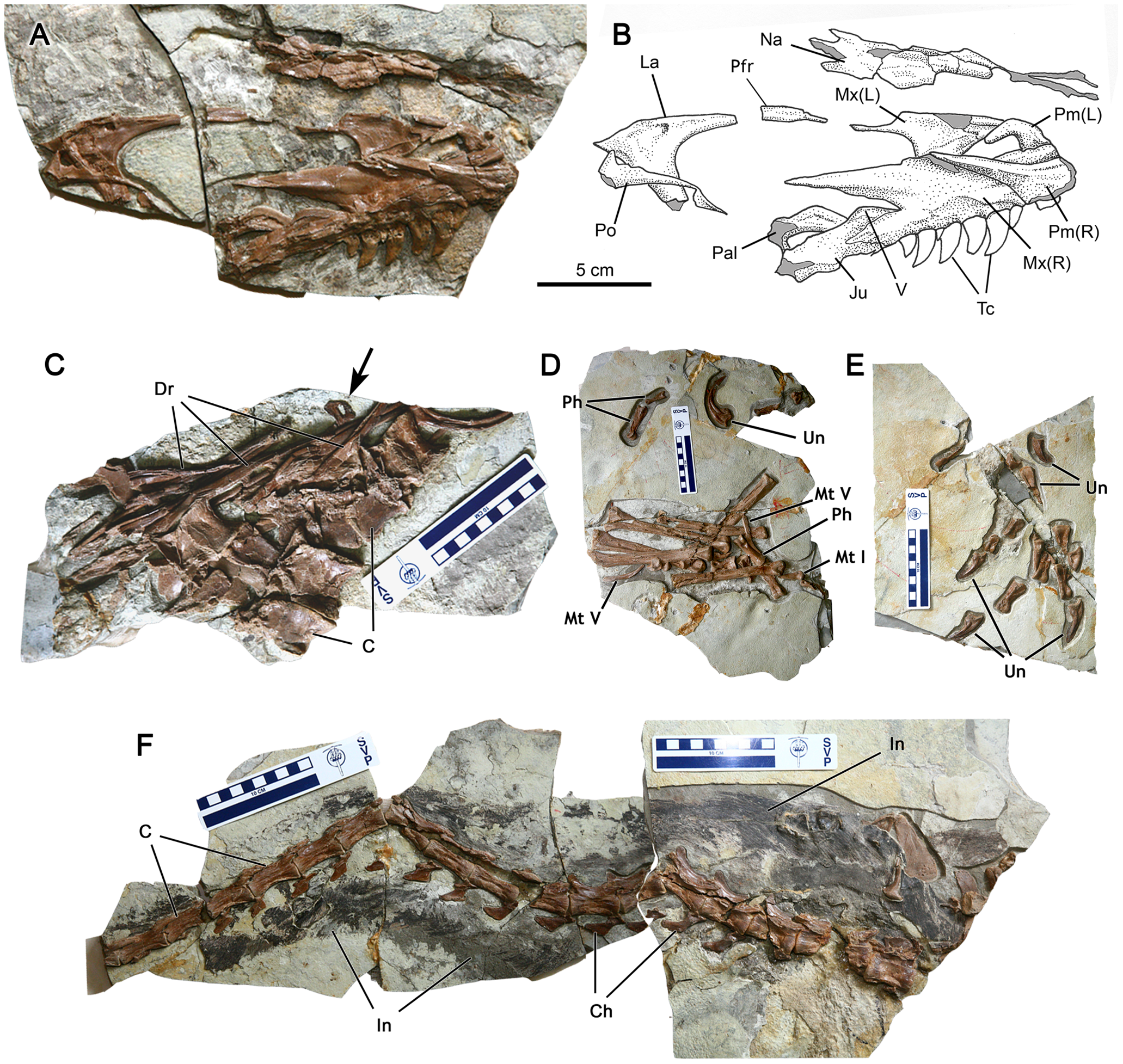 Sinocalliopteryx gigas (CAGS-IG-T1), partial skeleton. A, B; skull; C, dorsal vertebrae and ribs. Arrow points to partly covered Confuciusornis humerus; D, associated feet; E, associated pedal phalanges and unguals; F, articulated tail with filamentous integument. Abbreviations: C, centrum; Ch, chevron; Dr, dorsal rib; In, integument; Ju; jugal; La, lacrimal; Mt, metatarsal; Mx, maxilla; Na, nasal; Pal, palatine; Pfr, prefrontal; Ph, phalanx; Pm, premaxilla; Po, postorbital; Tc, tooth crown; Un, ungual; V, vomer. Scale bars in C–F equal 10 cm in 1 cm increments.